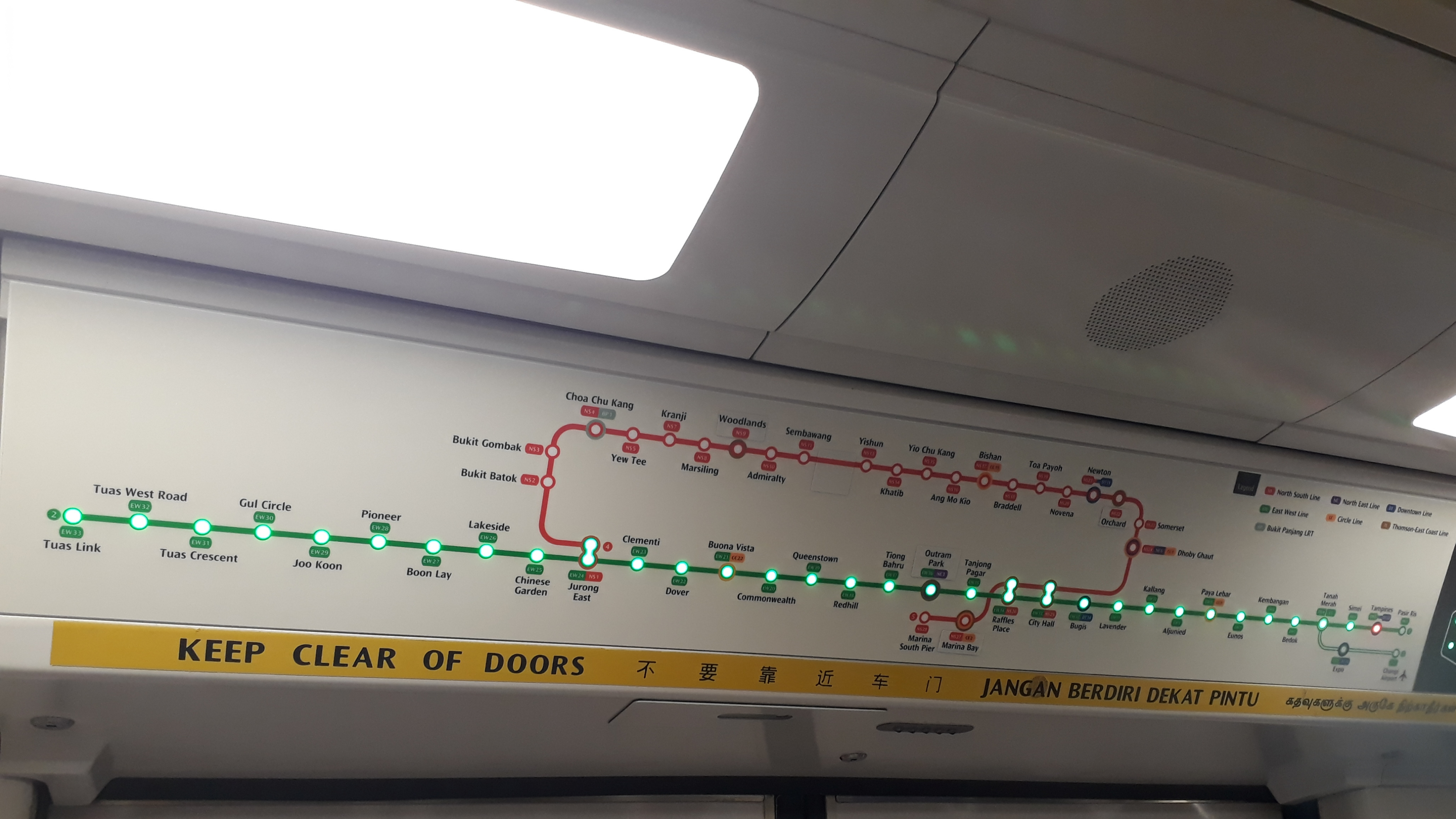 Updated display map for NSLEWL trains